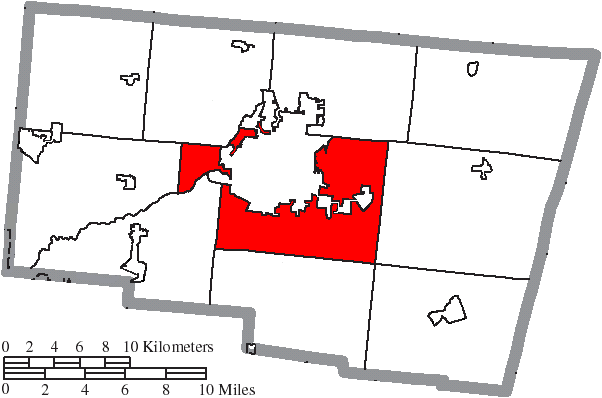 Map of the municipal and township boundaries of Clark County, Ohio, United States, as of the 2000 census, with the location of Springfield Township highlighted. Township borders are shown only in unincorporated areas in order to differentiate incorporated and unincorporated areas more clearly.